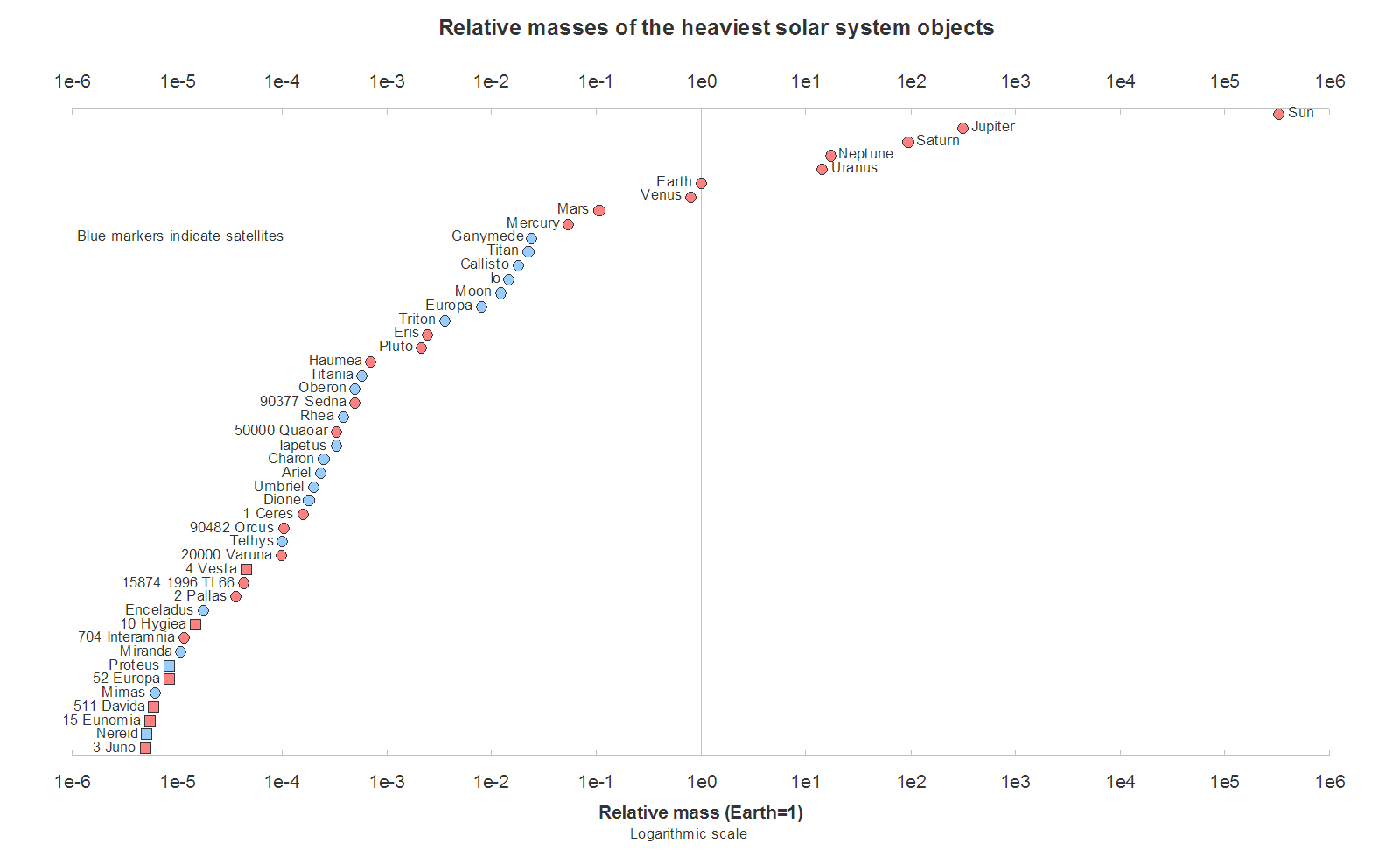 (Image created and uploaded by Del C 17:57, 6 October 2006 (UTC), after an original by Aquirata, showing the relative masses of forty-eight selected solar system objects. The mass scale is logarithmic, with Earth=1. Blue markers indicate satellites. Bodies that are known to not be at hydrostatic equilibrium are shown as squares instead of circles. (Some other bodies shown as circles at the lower end of this scale may not be conclusively determined to have achieved hydrostatic equilibrium.)